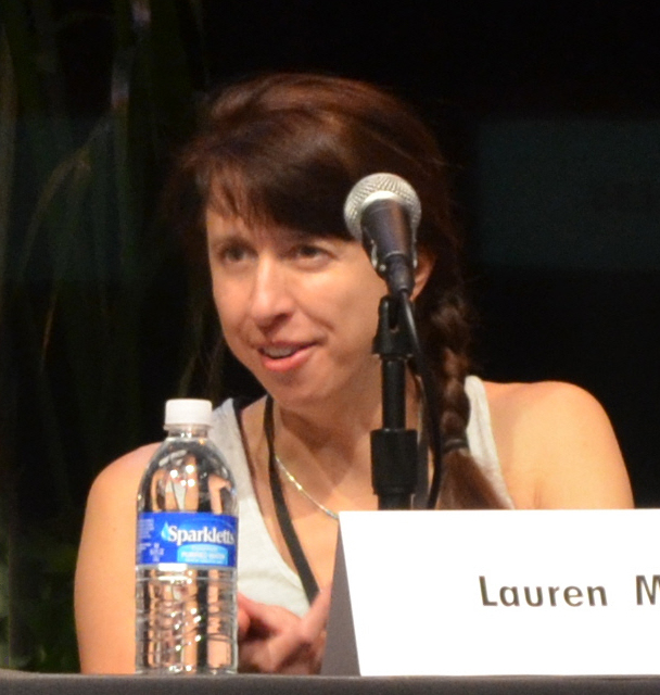 Lauren Myracle at LA Times Festival of Books 2012